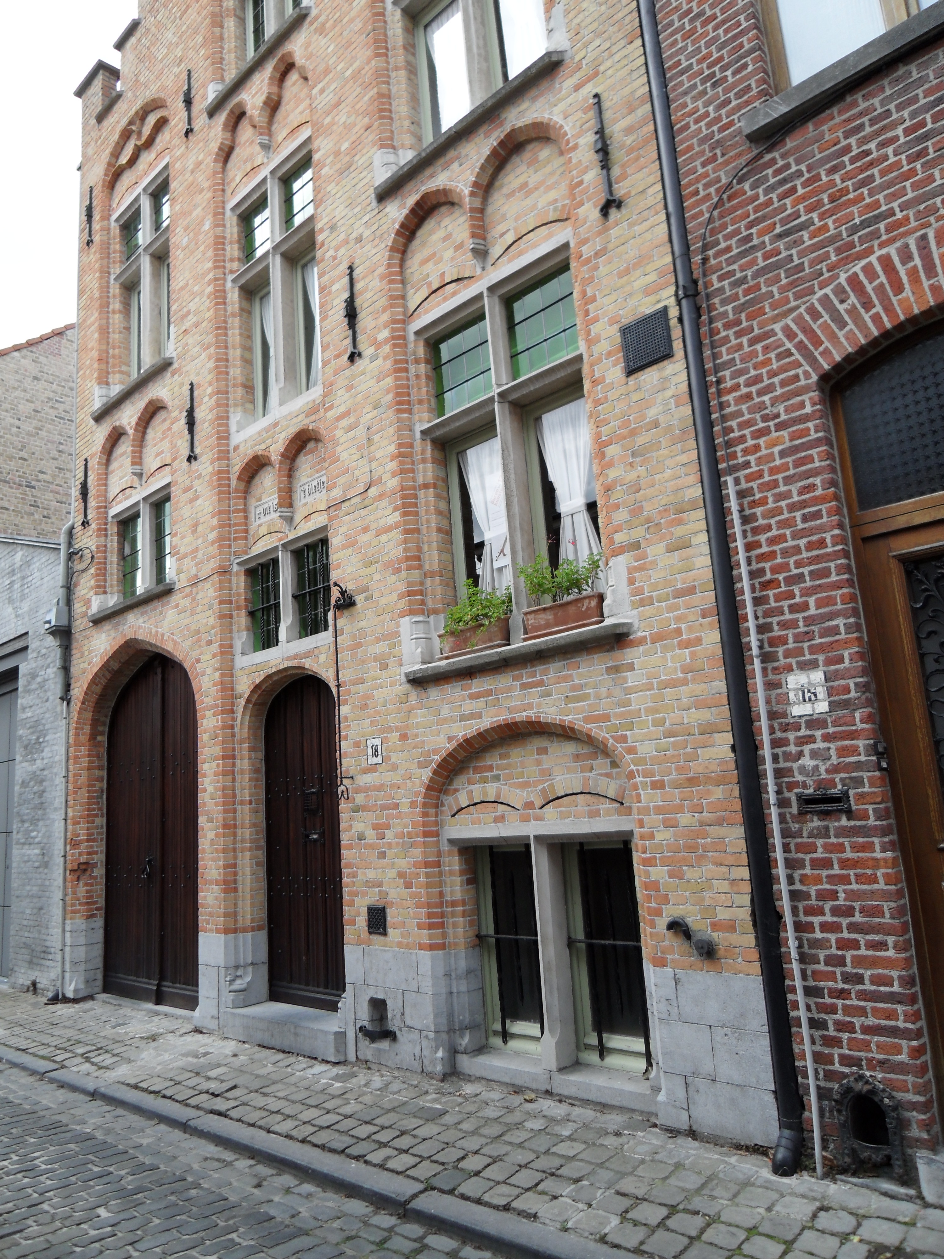 Schouwvergersstraat in Bruges